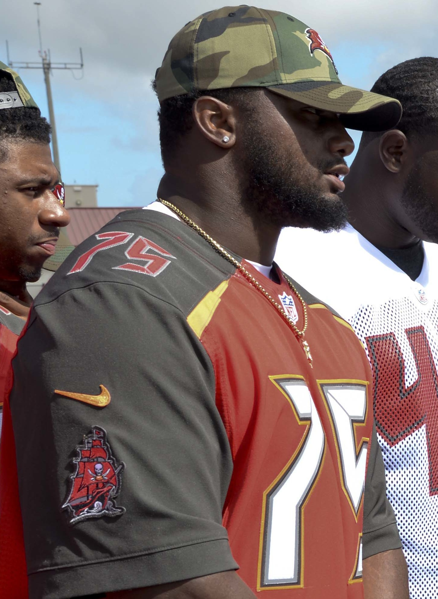 (Right) Staff Sgt. Benjamin Heard, Survival, Evasion, Resistance and Escape specialist, explains the use of survival tools to rookies of the Tampa Bay Buccaneers at MacDill Air Force Base, Fla. June 10, 2016. The rookies received the opportunity to test equipment, learn basic survival skills and sample food rations.